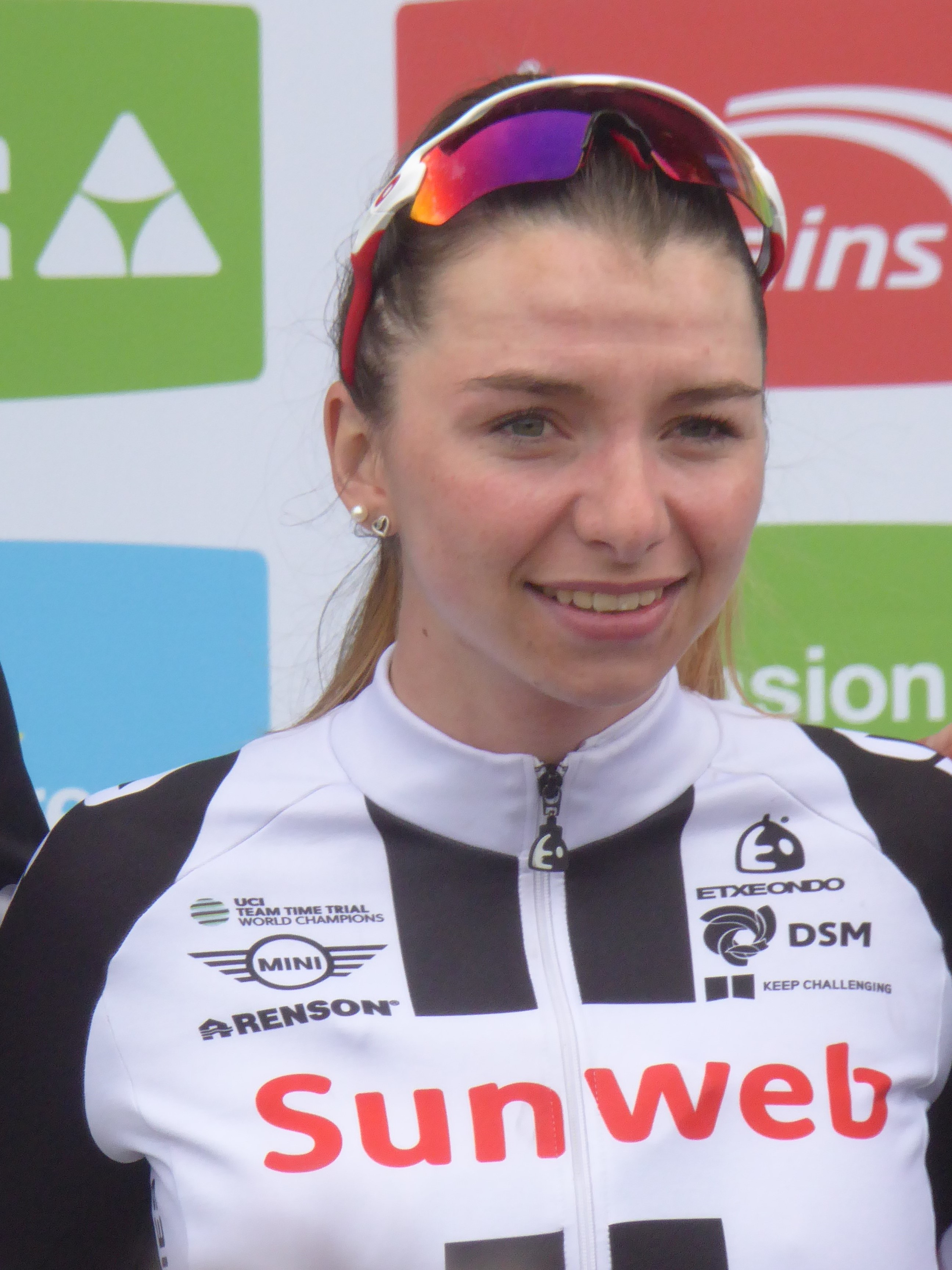 Liane Lippert of Team Sunweb, a member of the teams classification winners, at the 2018 Women's Tour de Yorkshire.